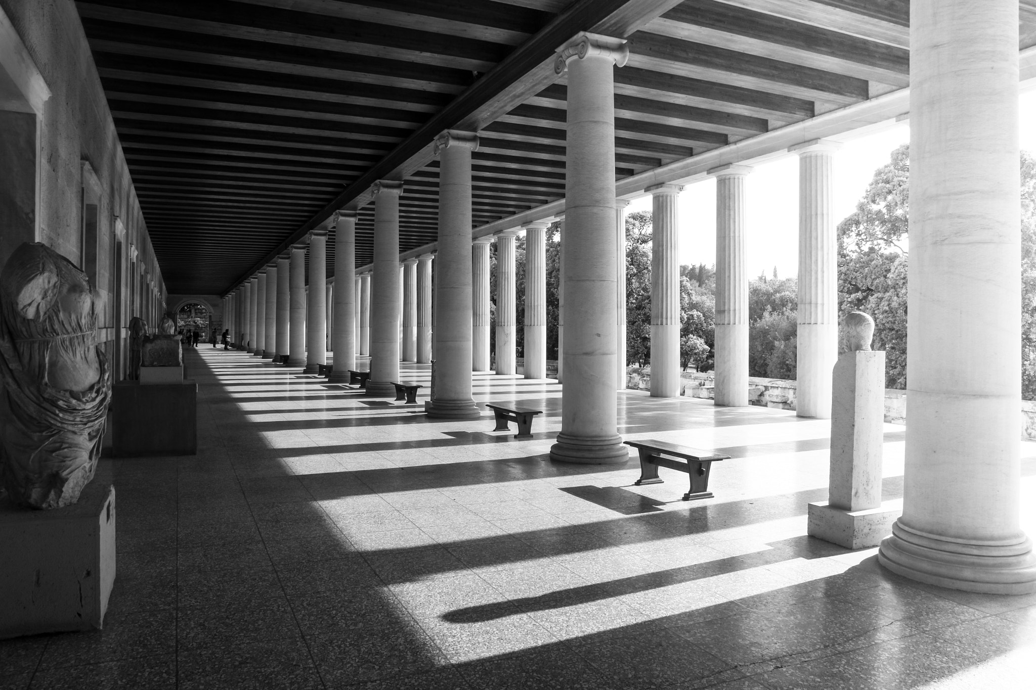 500px provided description: Attalus Portico At Sunset [#golden hour ,#black&white ,#Greece ,#Athens ,#Attiki ,#Stoa of Attalos ,#Ancient Agora of Athens ,#Agora of Athens ,#Archaea Agora of Athens ,#Attalus Portico ,#Stoa of Attalus]